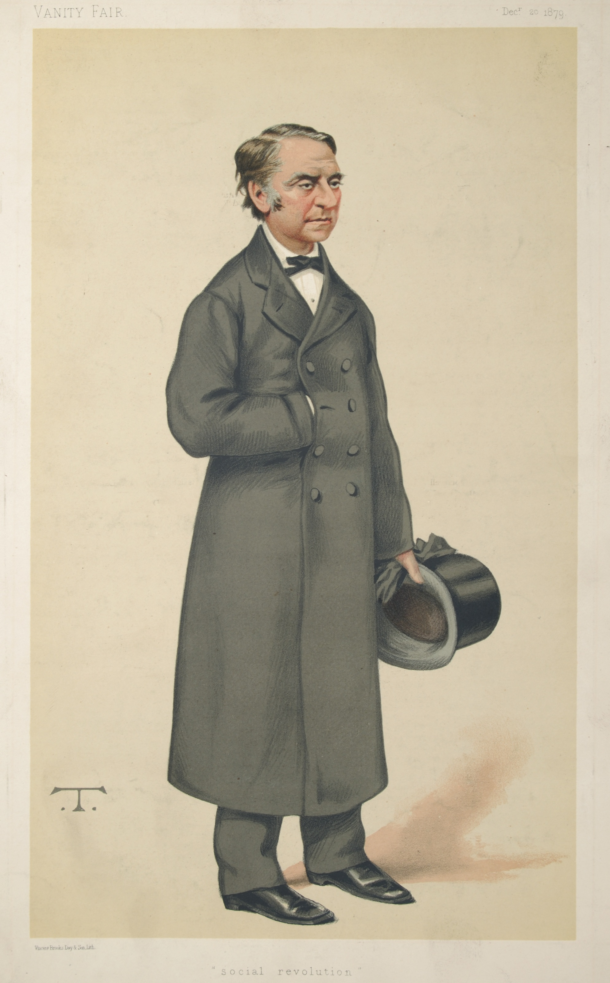 Statesmen No.319: Caricature of M Jean Joseph Louis Blanc. Caption reads: "social revolution"